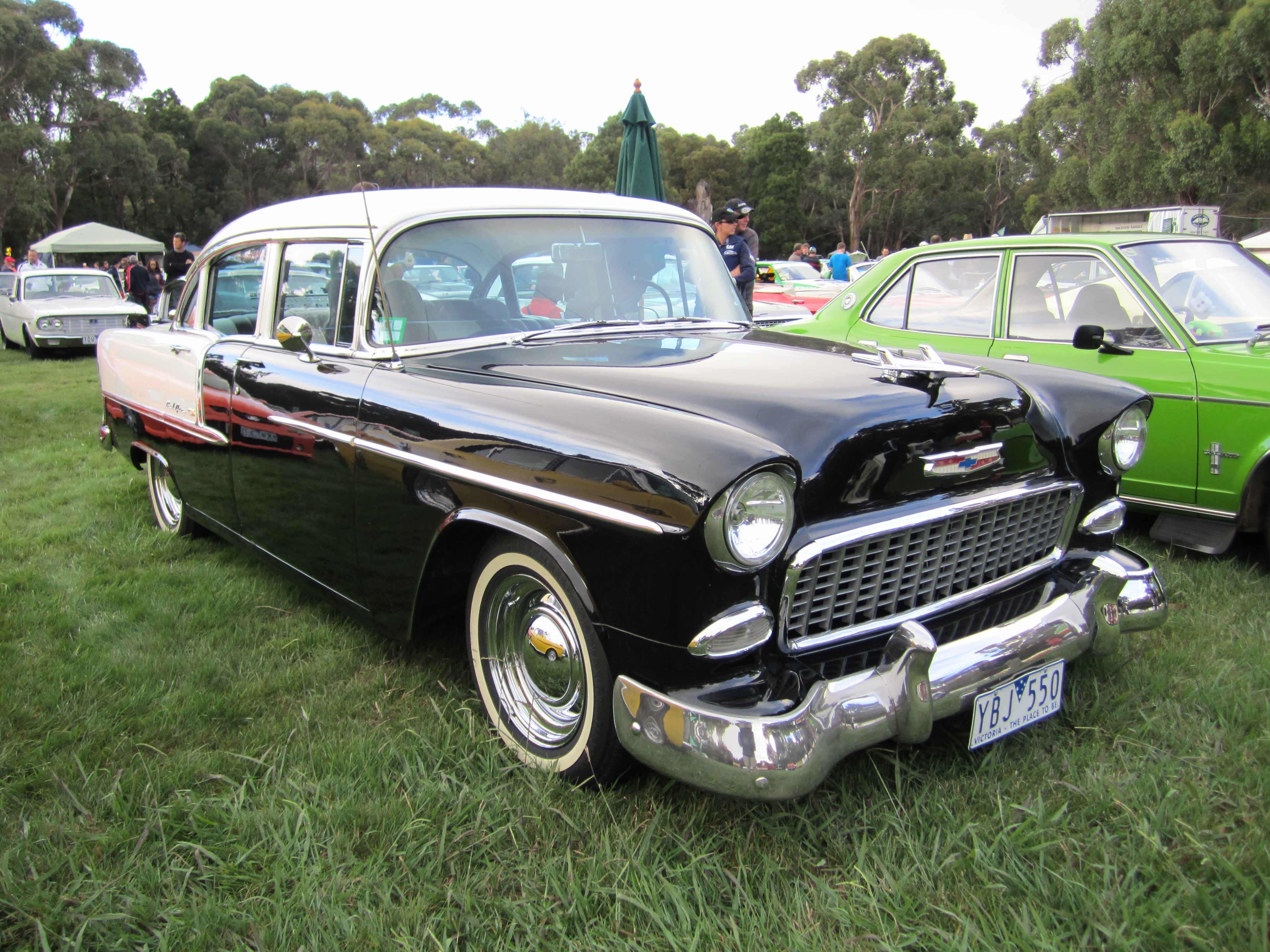 Available in Base 150, mid 210 & luxurious Bel Air. Bodies; Sedan, Coupe, 2 & 4 door Hardtop, Wagon & Convertible. Engines; 235 cu in 6 cyl & 265 cu in V8